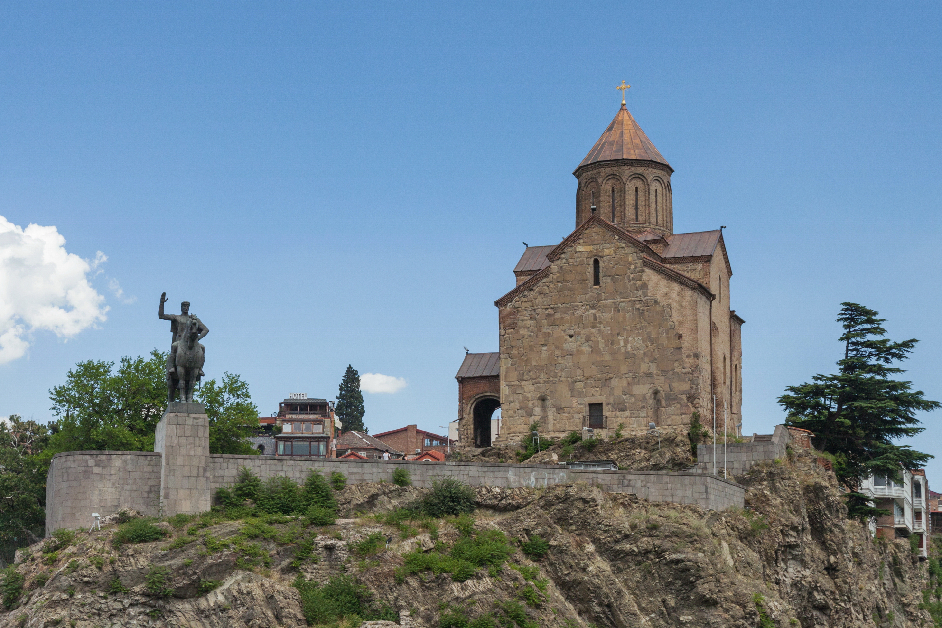 Metekhi church. Tbilisi, Georgia.